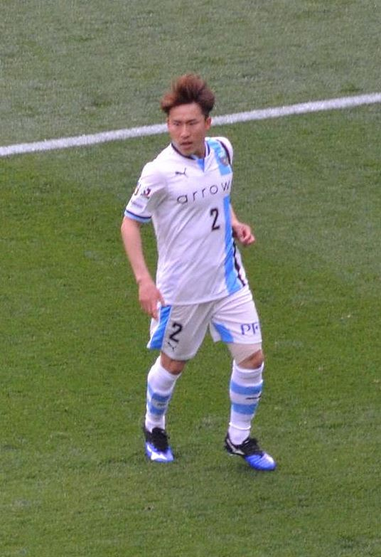 Kyohei Noborizato during the Tamagawa Clasico - the match between FC Tokyo and Kawasaki Frontale - played at Ajinomoto Stadium 16th April 2016.